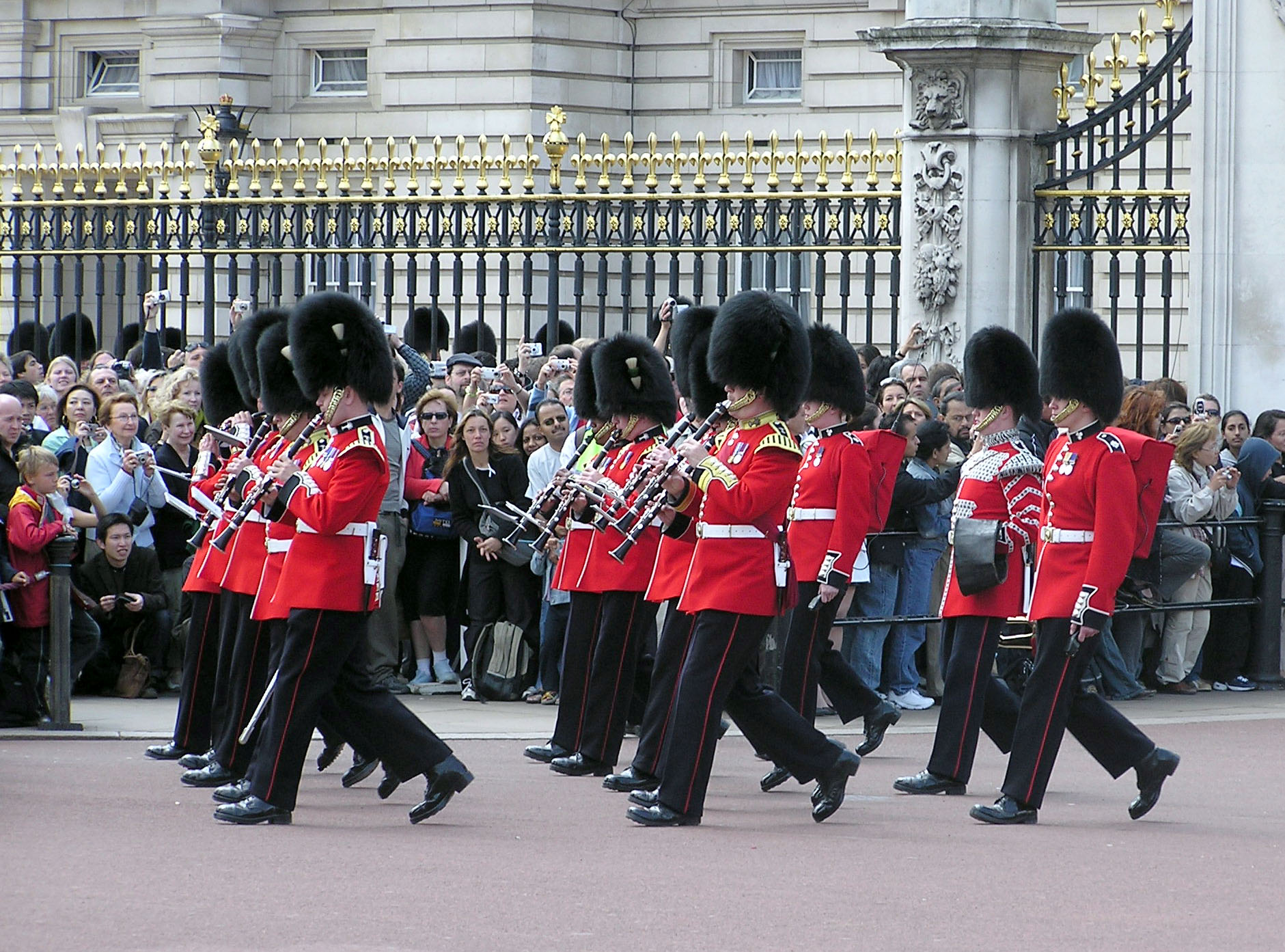 Welsh Guards Changing the Guard, at Buckingham Palace, London, England, U.K.